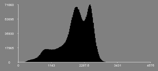 The 32 bit image shows a histogram of a filtered brain image, using the free software MANGO: The histogram depicts 3 classes that were used to filter the image: Image:Kasraie scalped 3d010r cal BET2 0001.png. The skull is absent. The tissue types were Grey Matter, White Matter, and CSF (hence 3 major peaks). There is some residual matter in the periphery of the brain. That is what the skewing left shoulder is. The original image was a T1 MRI performed at the same facility (UTHSCSA-RIC), where the uploader, the software (MANGO), and the scanners are based in.